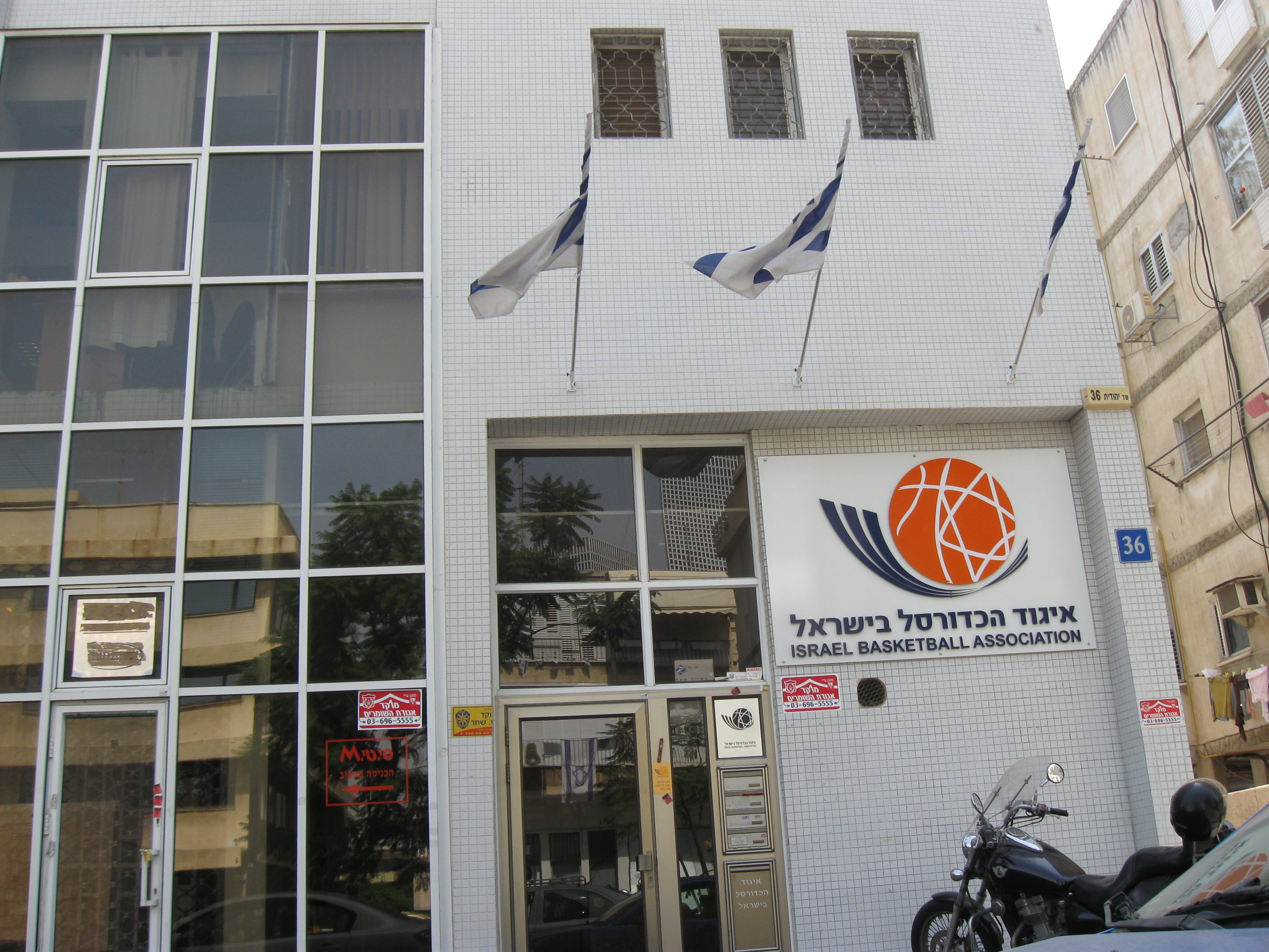 Israel Basketball Association offices